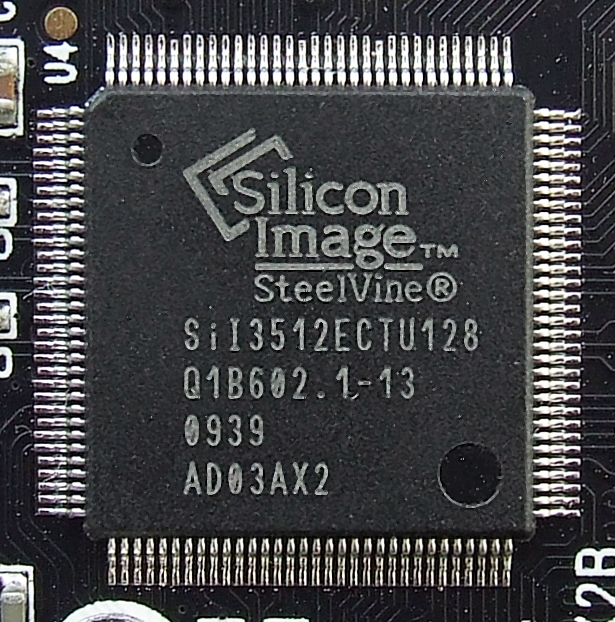 Silicon Image SiI3512 Serial ATA controller. It supports PCI 2.3 and two SATA 1.5 Gbit/s ports.